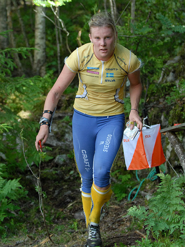 Helena Jansson at the World Cup event at Siggerud 2008.